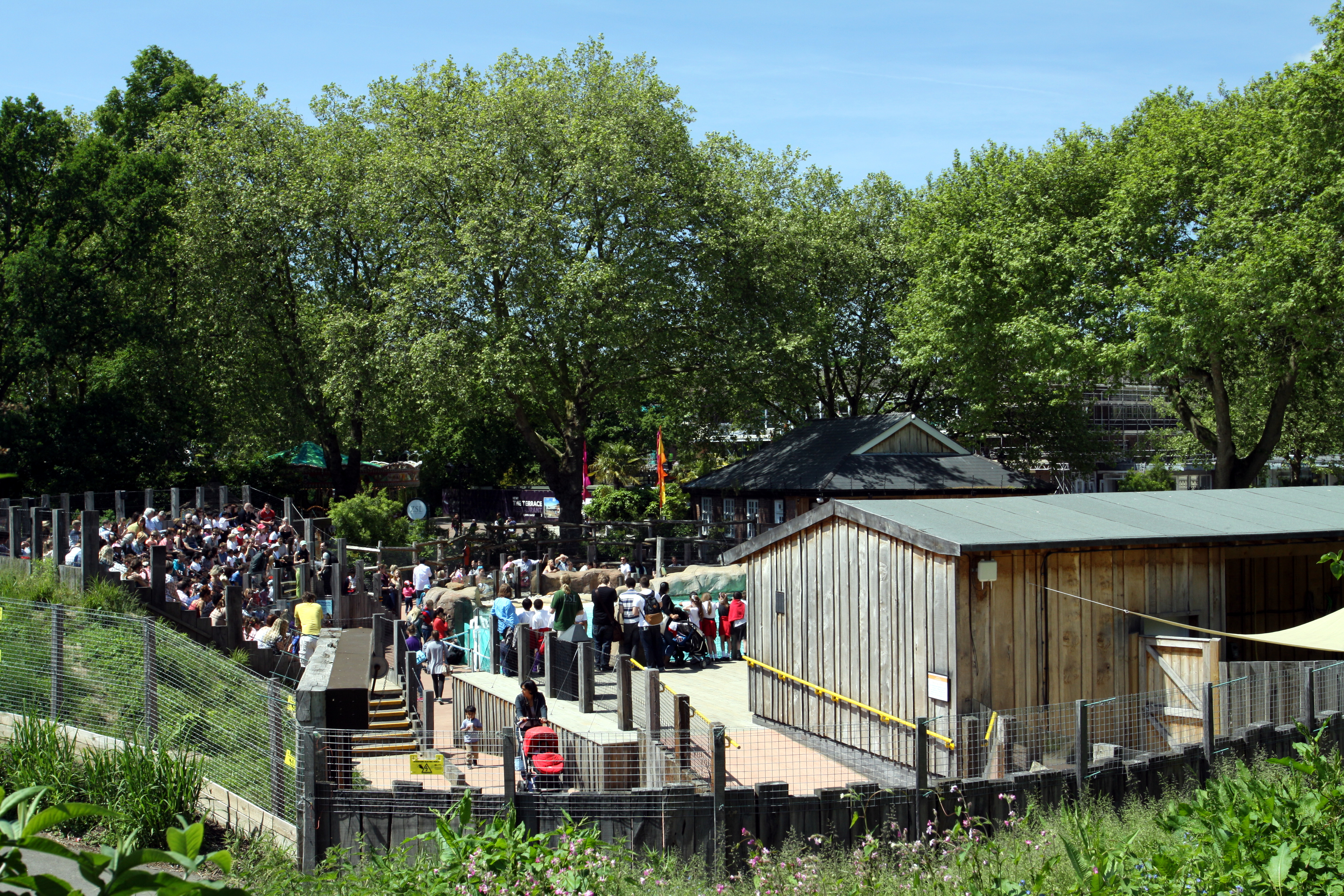 View to ZSL London Zoo from Regent's Park in London, England, Great Britain The making of this file was supported by Wikimedia UK.